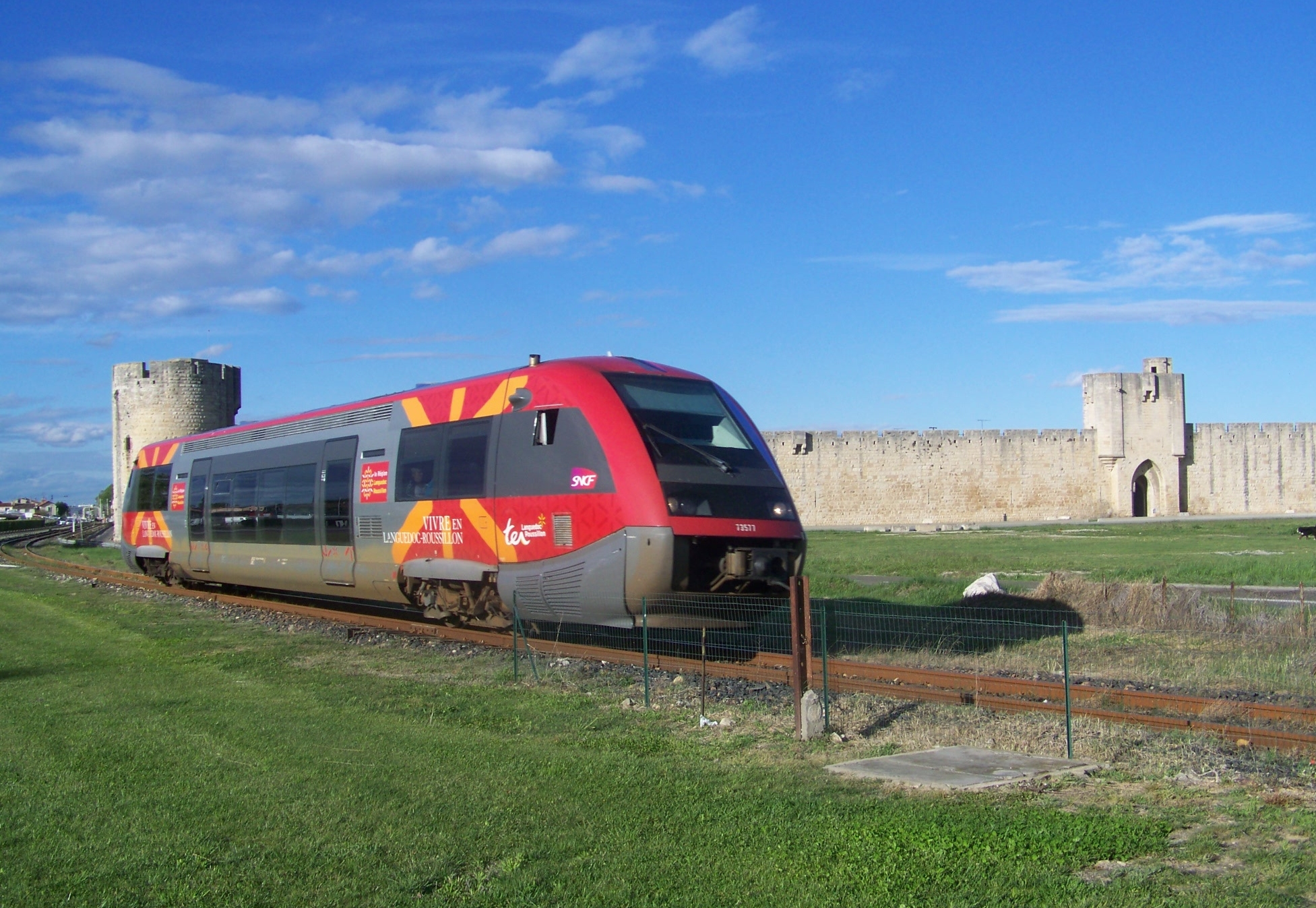 French regional train bound for le Grau du Roi is leaving the fortified town of Aigues-Mortes in Gard.